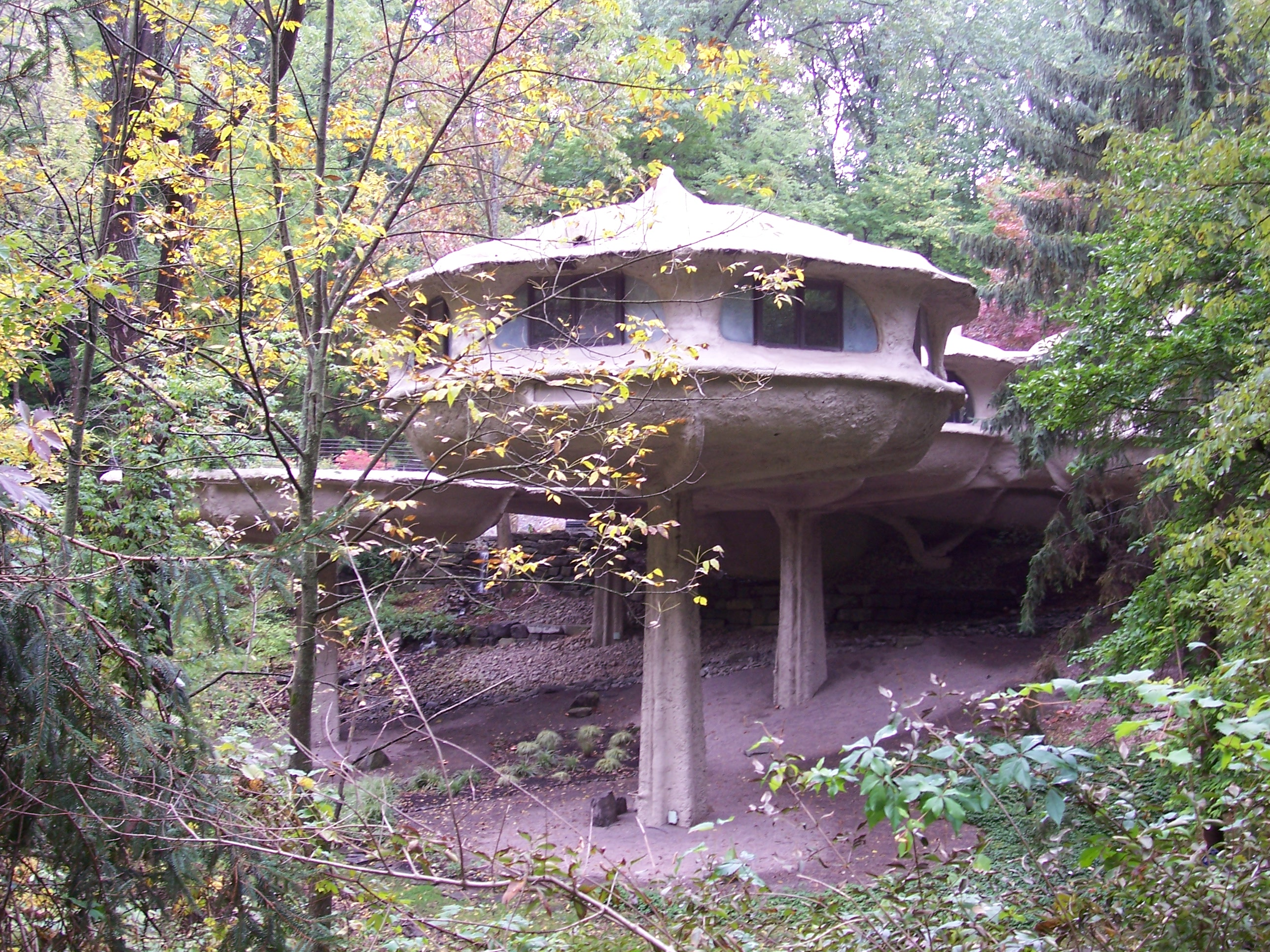 Mushroom House detail (Perinton, New York)